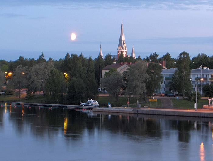 Joensuu Evangelical-Lutheran Church in Joensuu, Finland, seen from Suvantosilta bridge.